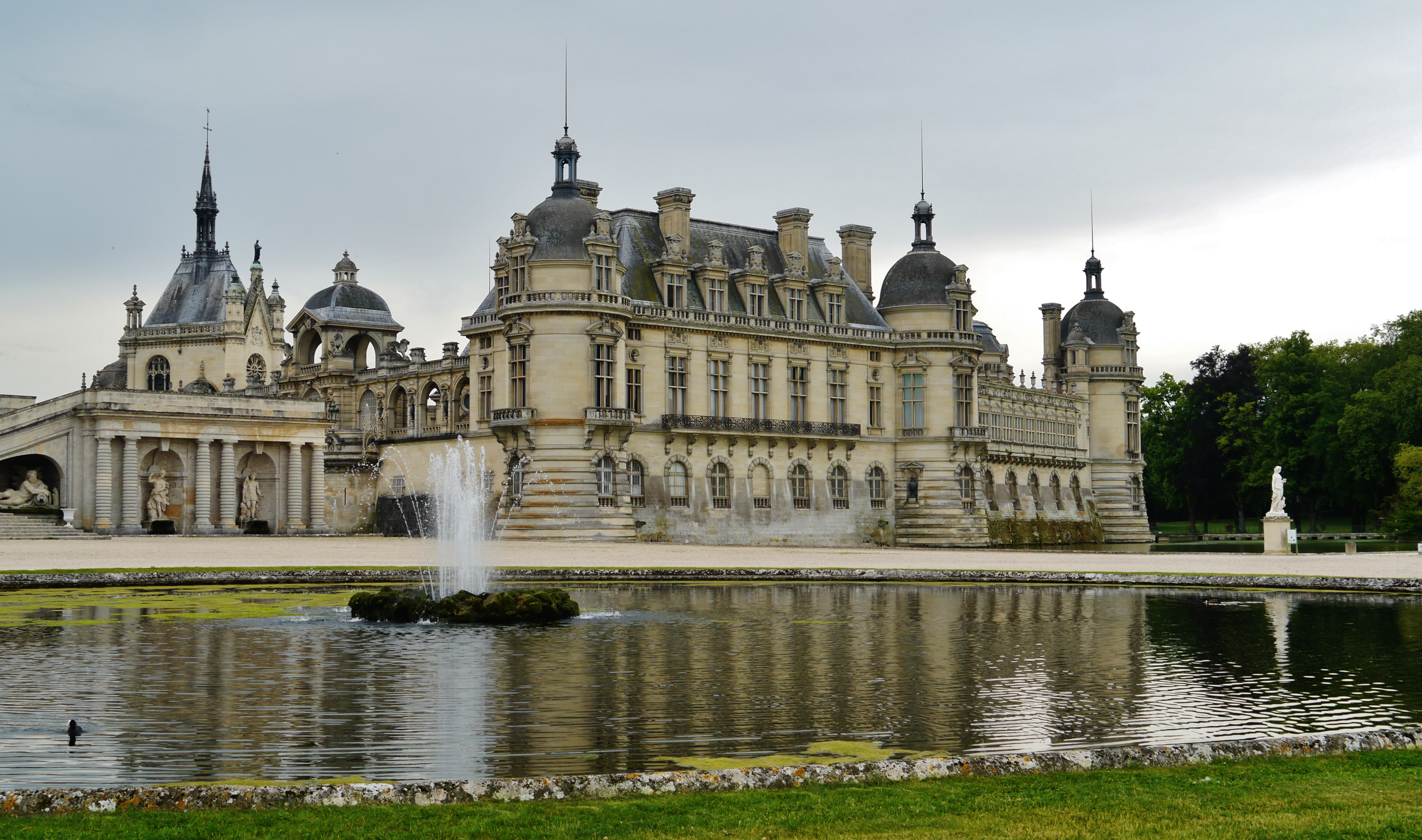 Chantilly Palace, Chantilly, Department of Oise, Region of Upper France (former Picardy), France